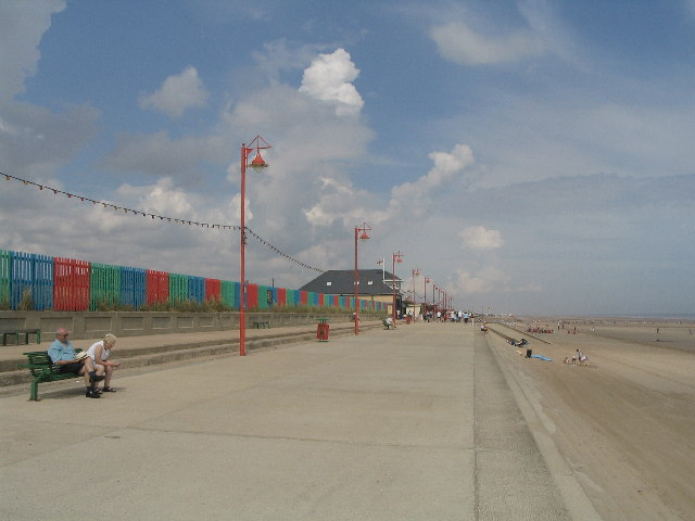 Mablethorpe Seafront. Taken last summer on a beautiful summer day.